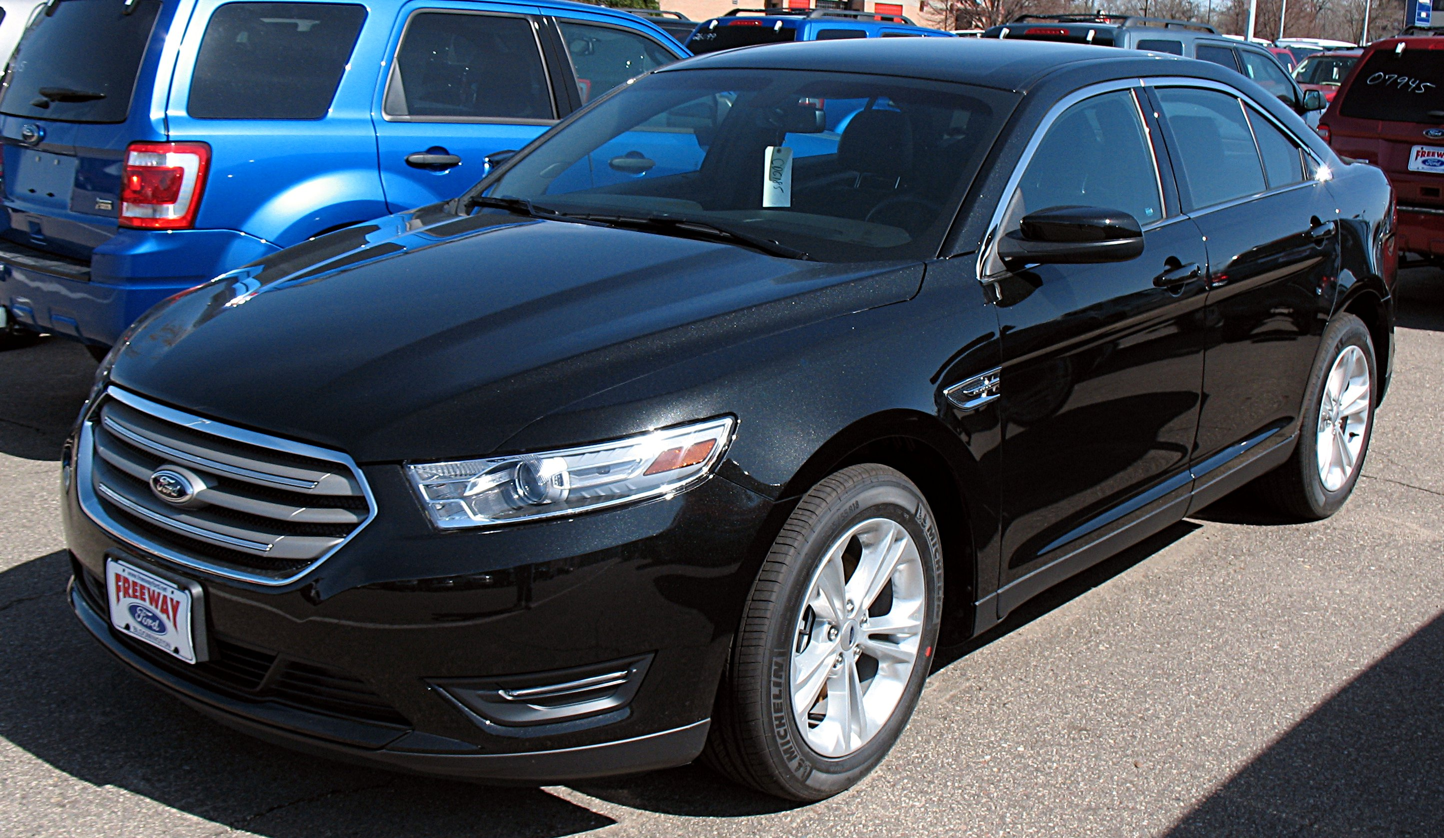 2013 Ford Taurus SEL sedan